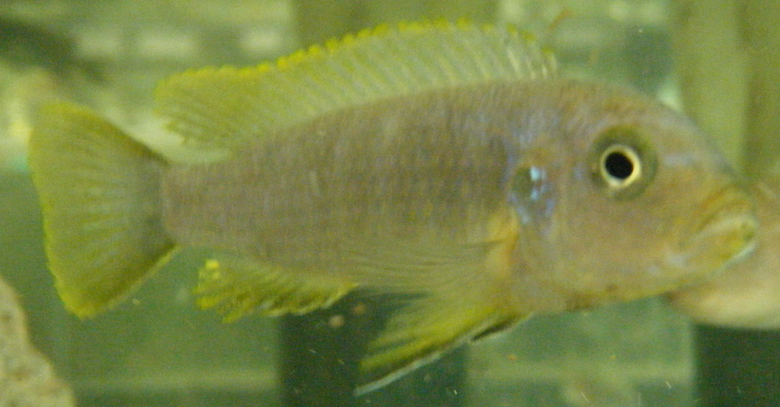 Cynotilapia axelrodi, wild caught female (yellow) from Nkhata Bay